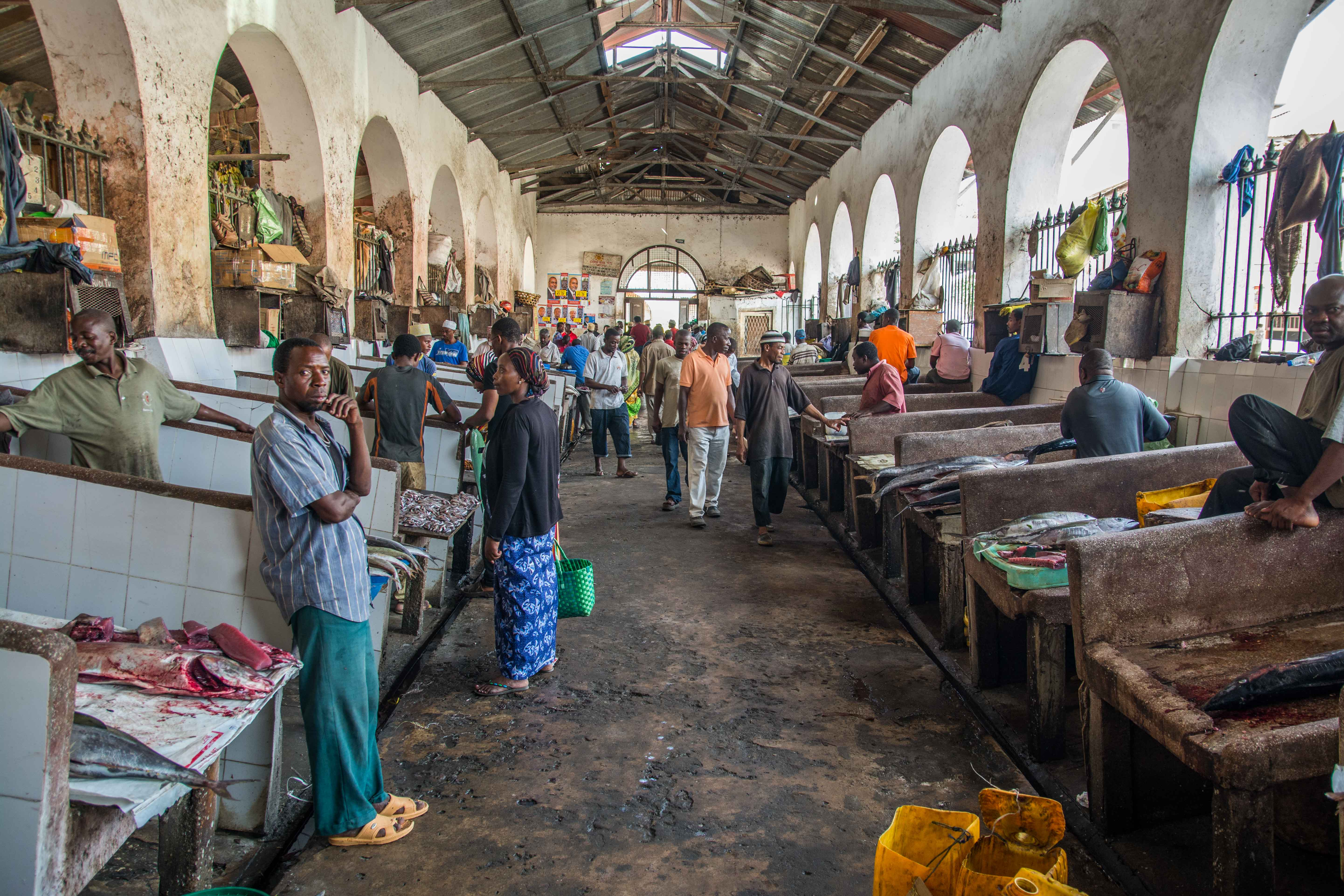 This is an image of Cultural Fashion or Adornment from Tanzania